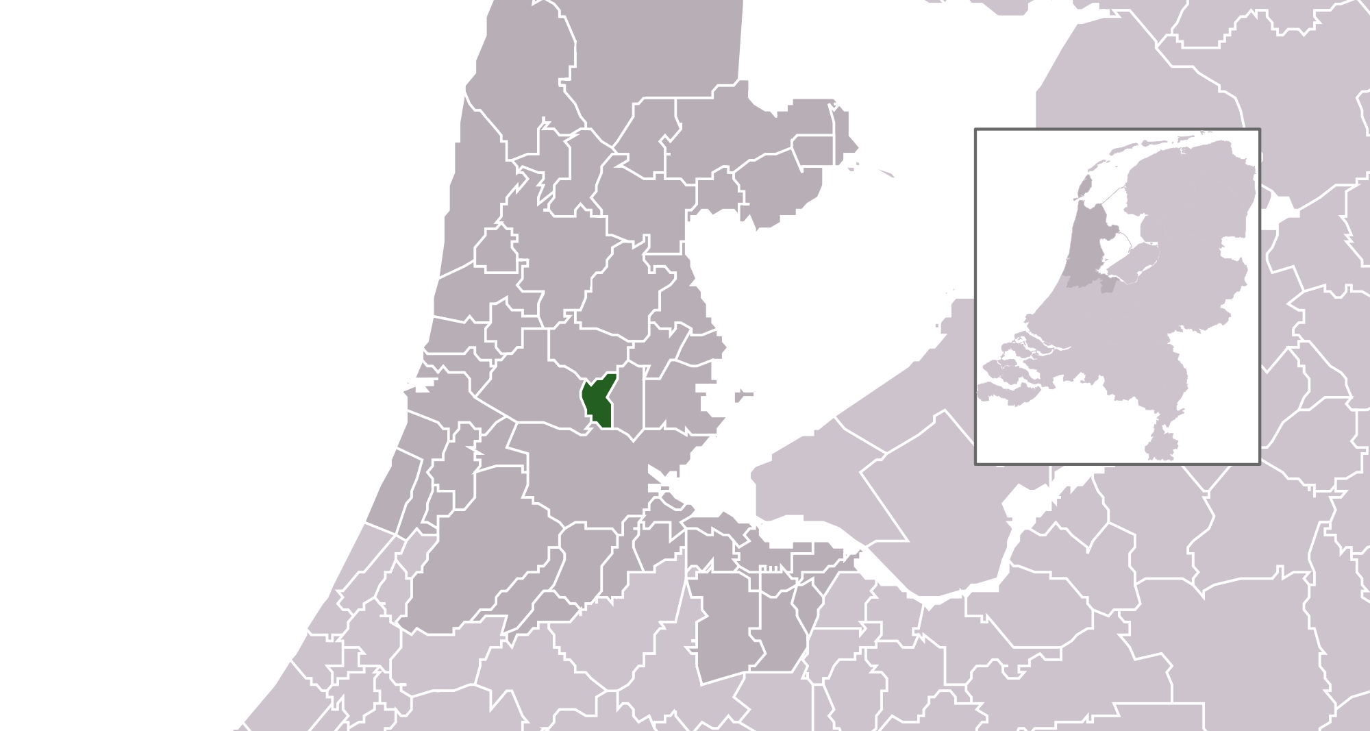 Location maps for the 441 municipalities in the Netherlands. Boundaries 1/1/2009 Automatically generated with script File name contains "Municipality code" (CBS-code) as specified in: [1] Created in svg using coordinate data derived from ESRI data published by Centraal Bureau voor de Statistiek, Voorburg/Heerlen. ([2]) Color coding and original design (slightly adpated by me) by user Mtcv (2006/2007) ([3]) Updated until January 1, 2014 The copyright holder of this file, Centraal Bureau voor de Statistiek, allows anyone to use it for any purpose, provided that the copyright holder is properly attributed. Redistribution, derivative work, commercial use, and all other use is permitted. Attribution: Centraal Bureau voor de Statistiek This work is free and may be used by anyone for any purpose. If you wish to use this content, you do not need to request permission as long as you follow any licensing requirements mentioned on this page.